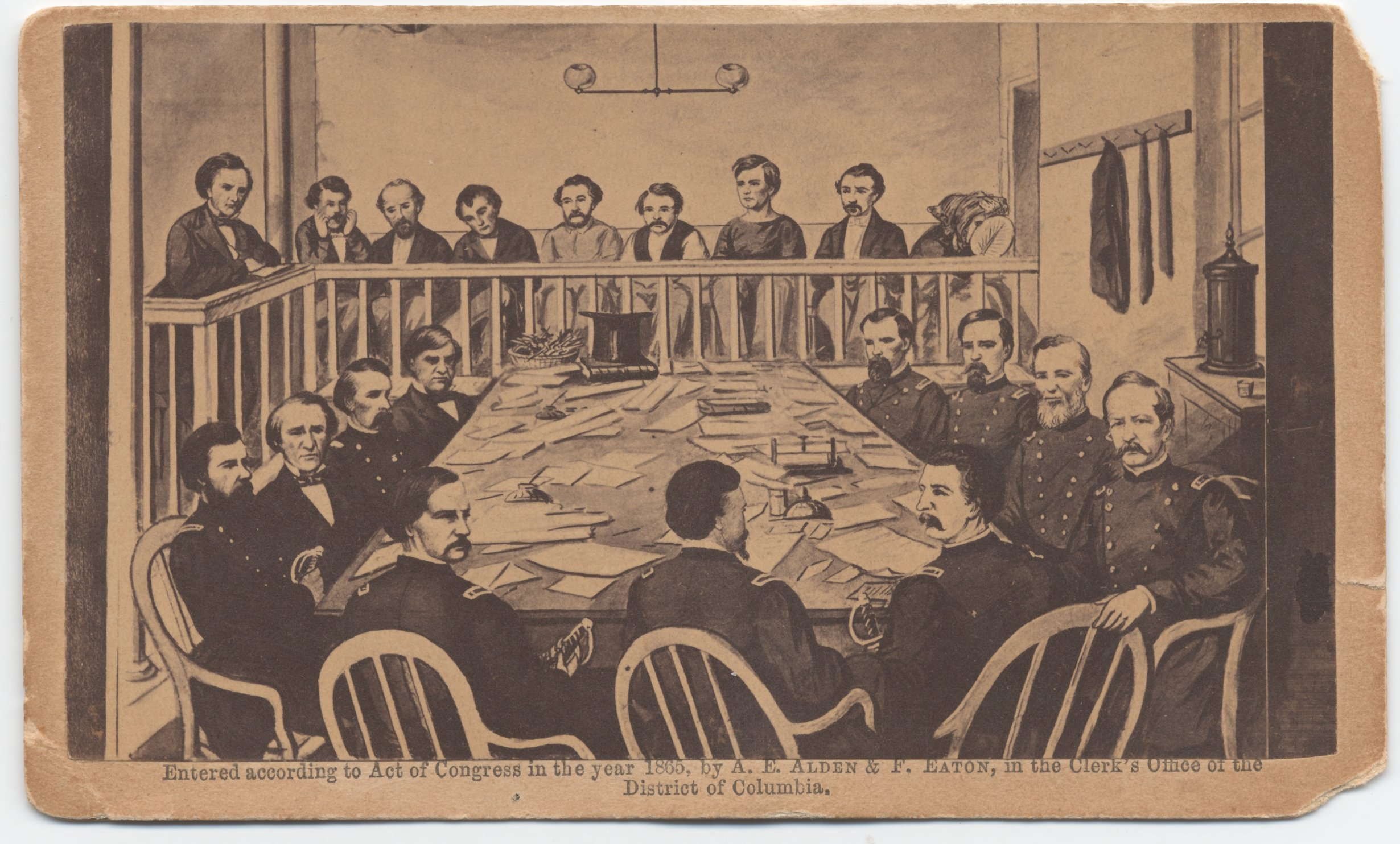 From Verso: This Picture is a correct Photograph from live, of Conspirator on trial, and the only original one. Taken June 5th, 1865, by special permission of Maj. Gens. Hunter and Hartrauft, at the Court Room in Arsenal Building, Washington D.C. In the foreground may be seen Judges Holt and Bigelow, Maj. Gens. Hunter and Hartrauft, and other members of the Military Commission. Also, on the table of manuscripts, may be distictly seen the identical hat worn by President Lincoln on the night of his assassination, and near it on the same table, the basket of pistols and bowie knives which were furnished Booth and his companions by Mrs. Surratt. NAMES OF CONSPIRATORS. No. 1. Surratt, Mrs. Mary E.; No 2. Harrold, David E.; No. 3. Payne, Lewis.; No. 4. Atzeroth, George A.; No. 5. O'Laughlin Michael.; No. 6. Spangler Edward. No. 7. Mudd, Dr. Samuel A.; No. 8. Arnold Samuel Duplicates furnished by the hundred or thousand. A.E. ALDEN, Photographer, No. 65 Arcade, Providence, R.I.